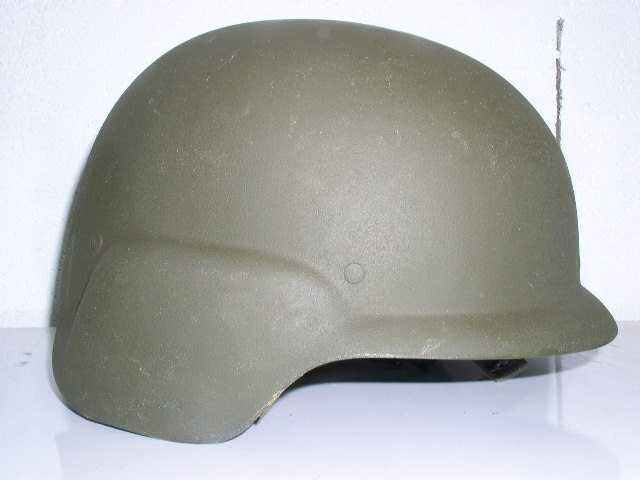 Helmet model Spectra